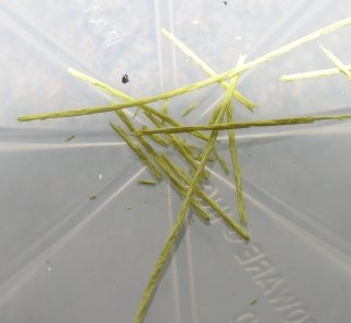 Original text:"Tungsten trioxide made by heating tungsten wires in an oxygen environment in a furnace."